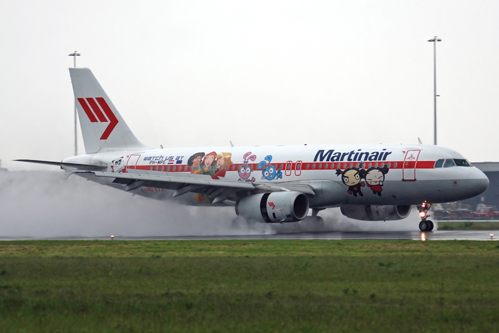 I almost miss these nice small martinair aircraft when I see this one. Airbus A320-232 Amsterdam schiphol [AMS / EHAM] 28-05-2007